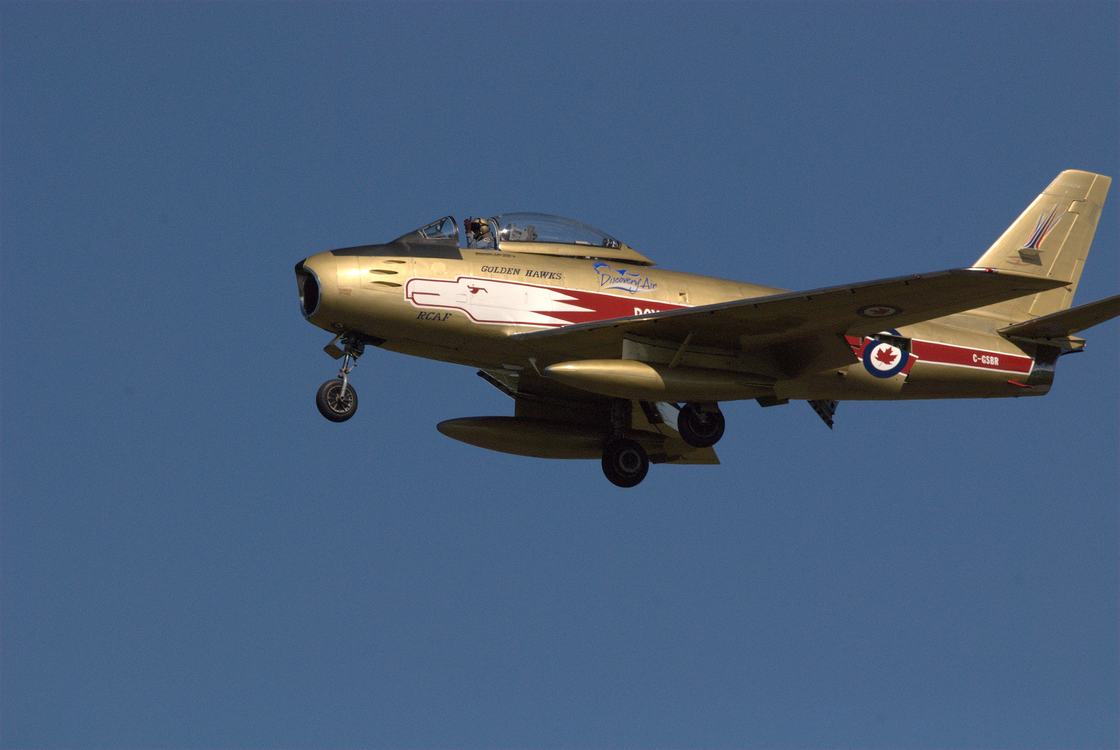 The Discovery Air "Hawk One" Sabre over Gatineau Executive Airport with Dan Dempsey at the controls as part of the Wings Over Gatineau Air Show put on by Vintage Wings of Canada and EAA Canada. (Copied from Flickr)